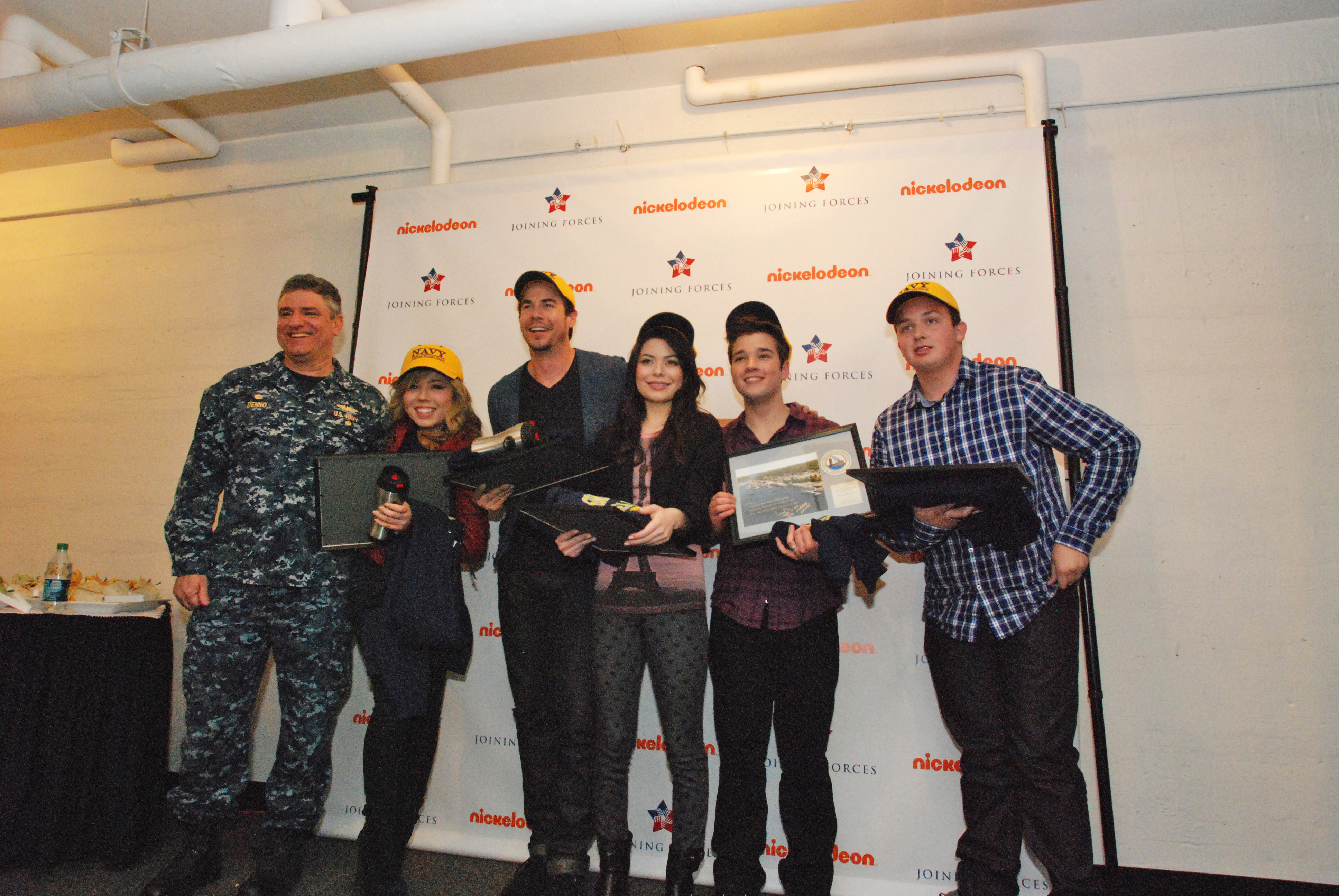 U.S. Navy Capt. Marc W. Denno, left, the commanding officer of Naval Submarine Base New London, Conn., poses for a photo with cast members of the Nickelodeon TV show "iCarly" Jan. 11, 2012, at the base theater. The actors visited the base for a special screening of an iCarly episode focusing on military family support.